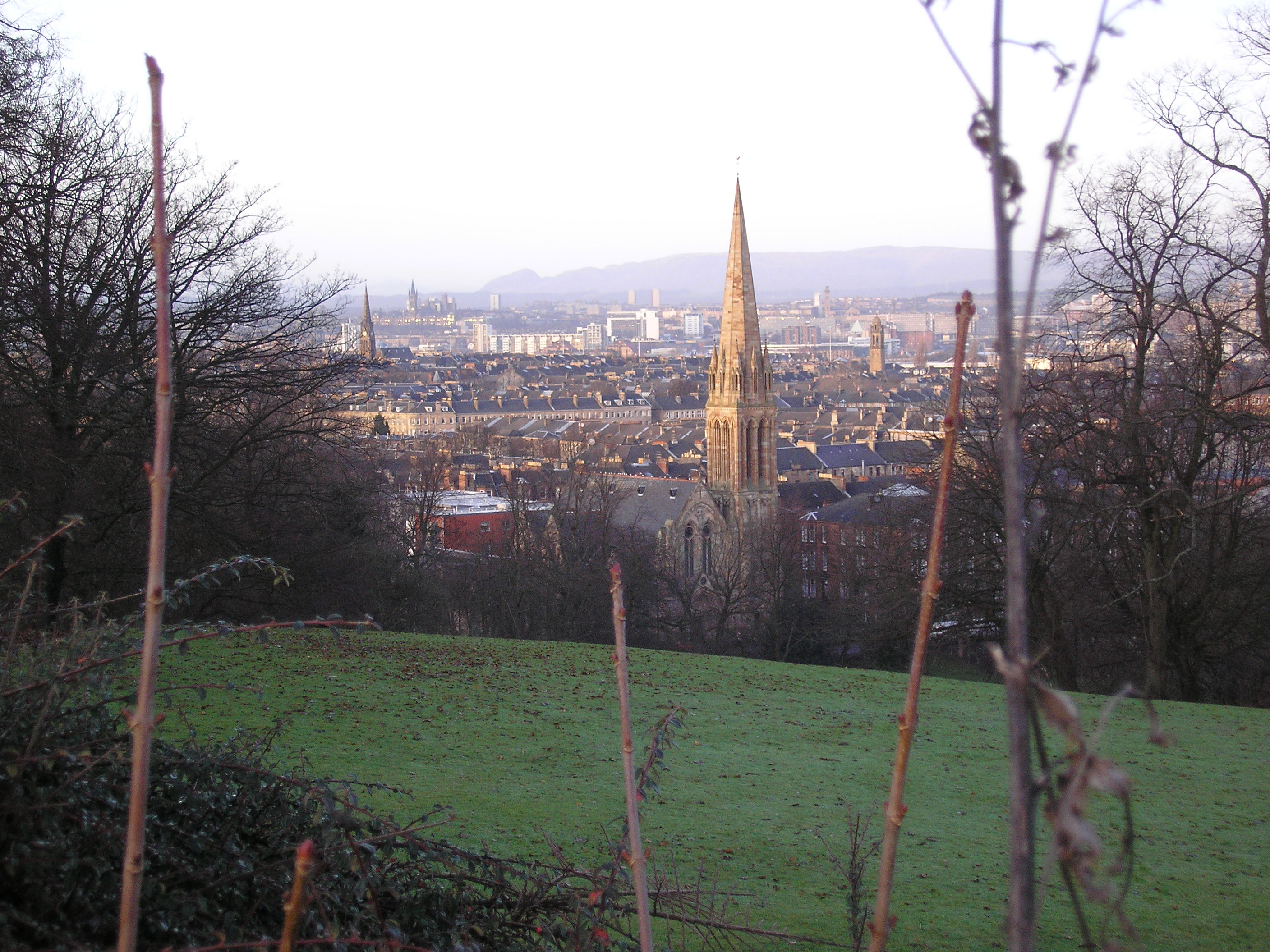 View from the top of Queens Park on the Southside of Glasgow, UK. Pollokshields, Glasgow Science Centre, Glasgow University are visible.